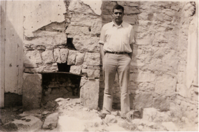 Photograph of Robert E. Howard at Fort McKavett in 1933. Howard sent a copy of this photograph to H. P. Lovecraft.